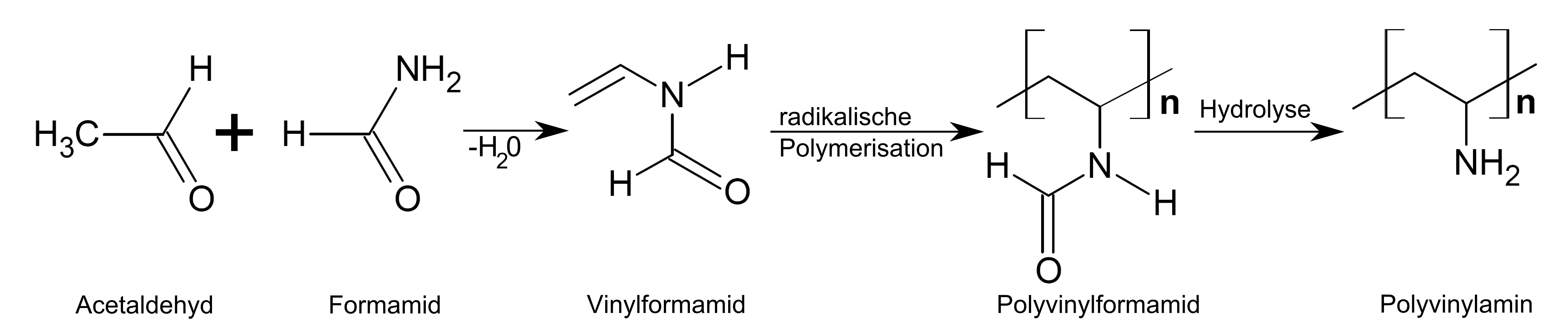 Synthesis of polyvinylamine